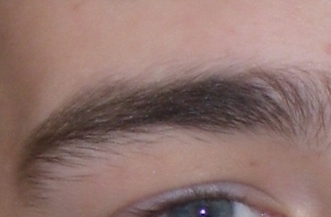 Eyebrow, detail of File:Konferencja Wikimedia Polska 2007 - Holek.jpg